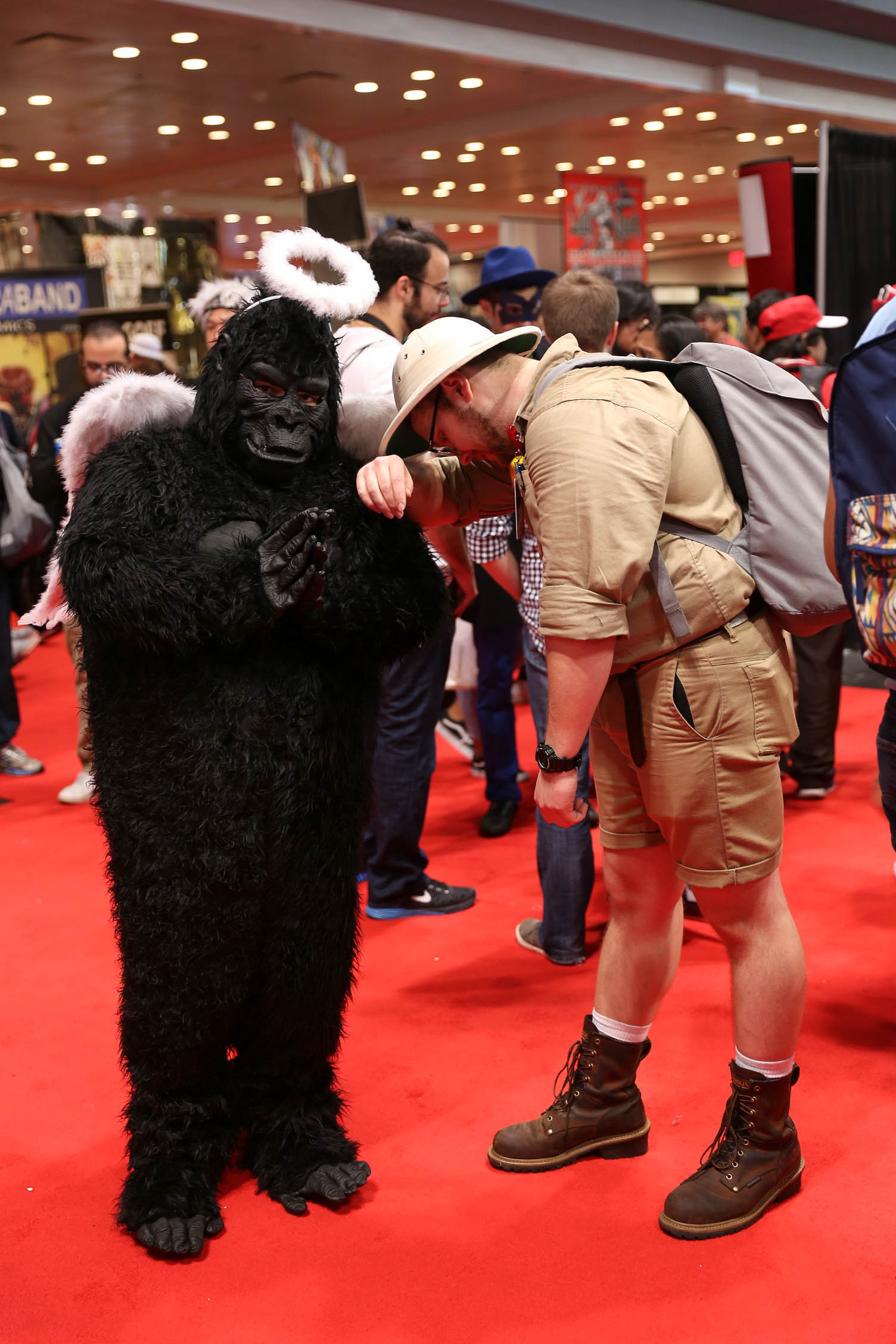 Cosplay at the 2016 New York Comic Con.